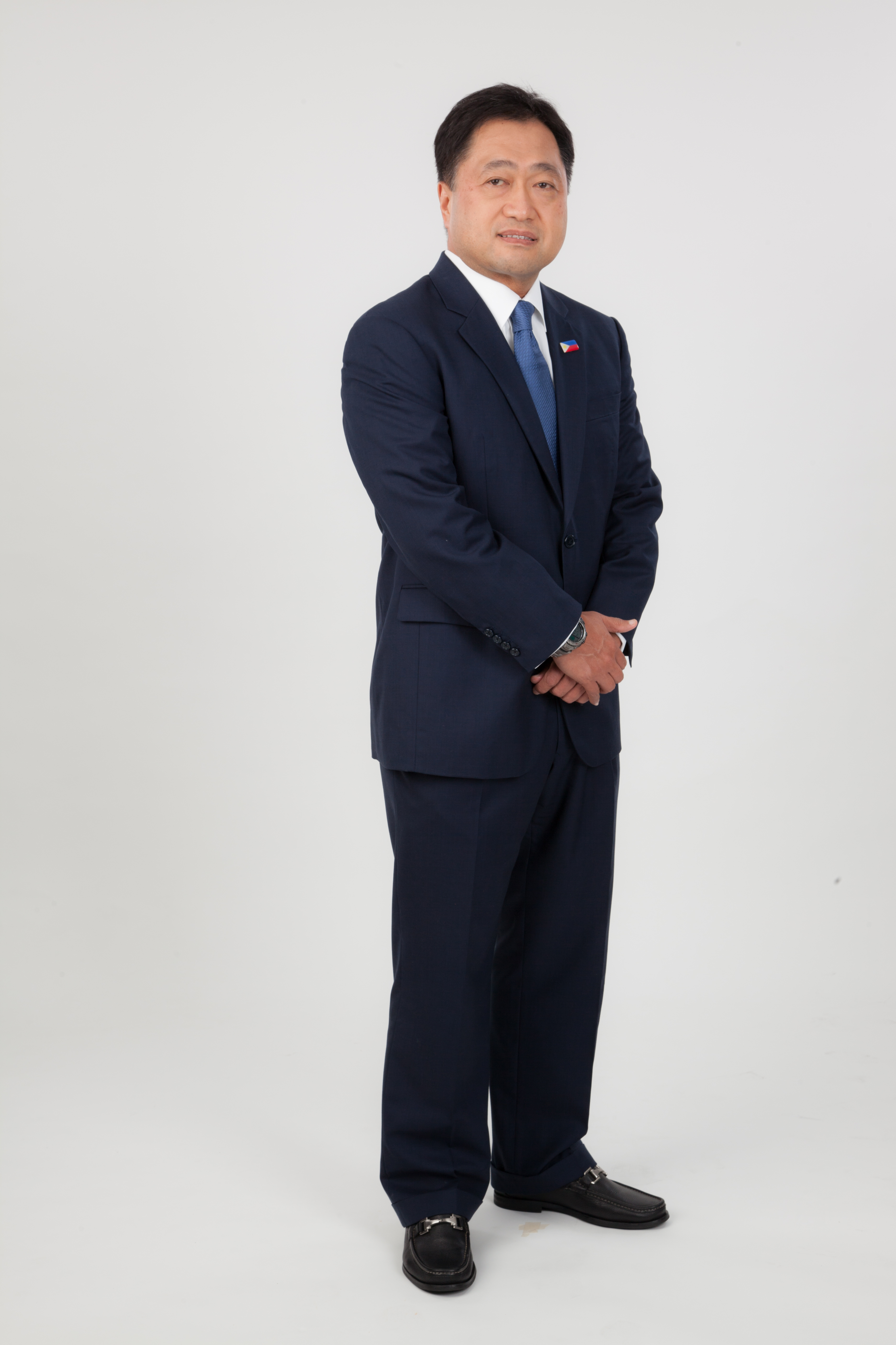 Profile photo of Cesar V. Purisima, Secretary of Finance of the Republic of the Philippines